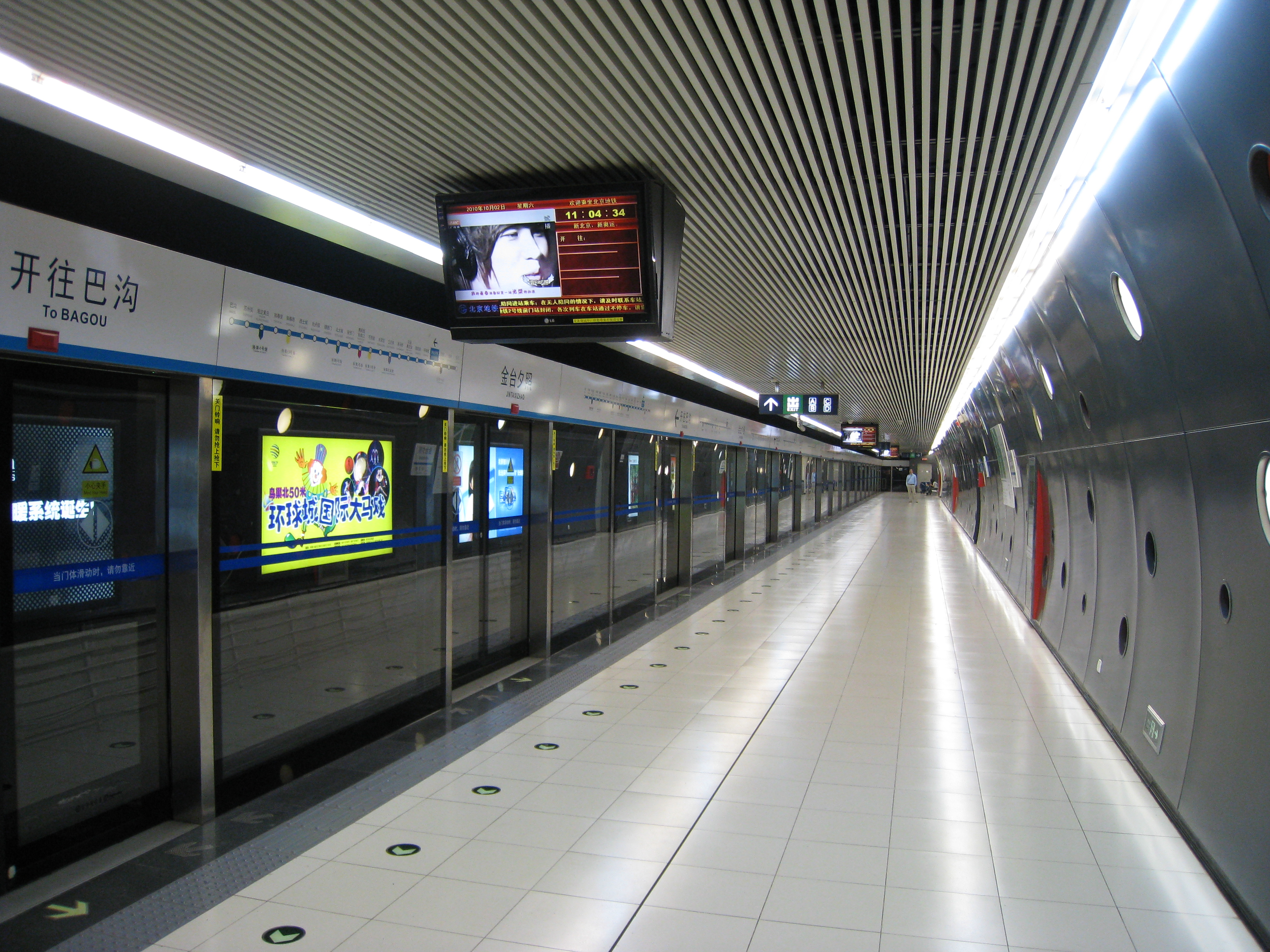 The platform of Jintaixizhao station, Beijing subway.